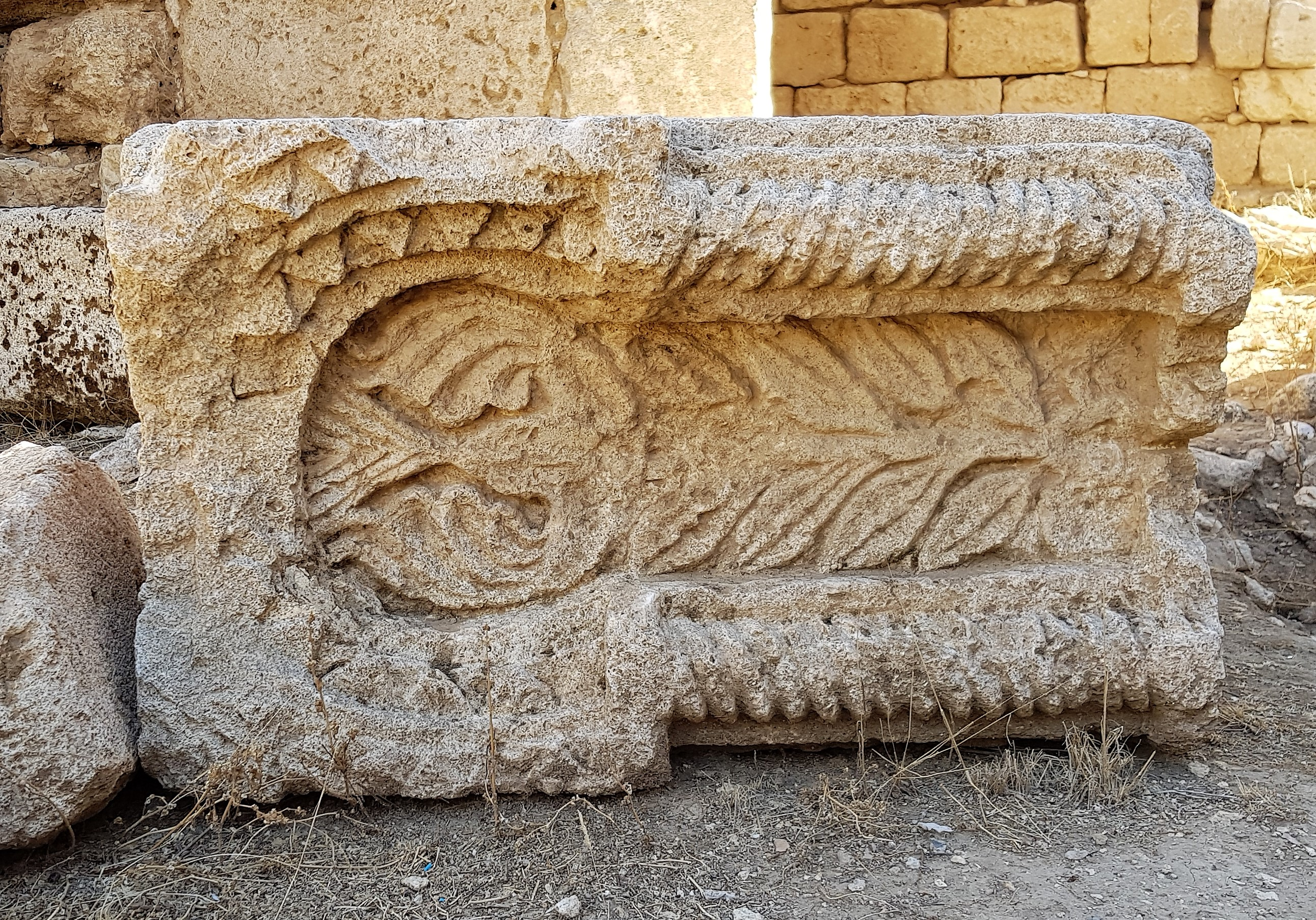 Architectural detail, Qasr al-Qastal.